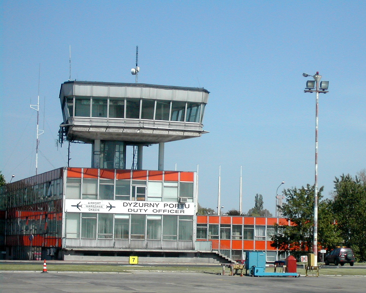 Warsaw Okecie Airport Old Tower (demolished by now)